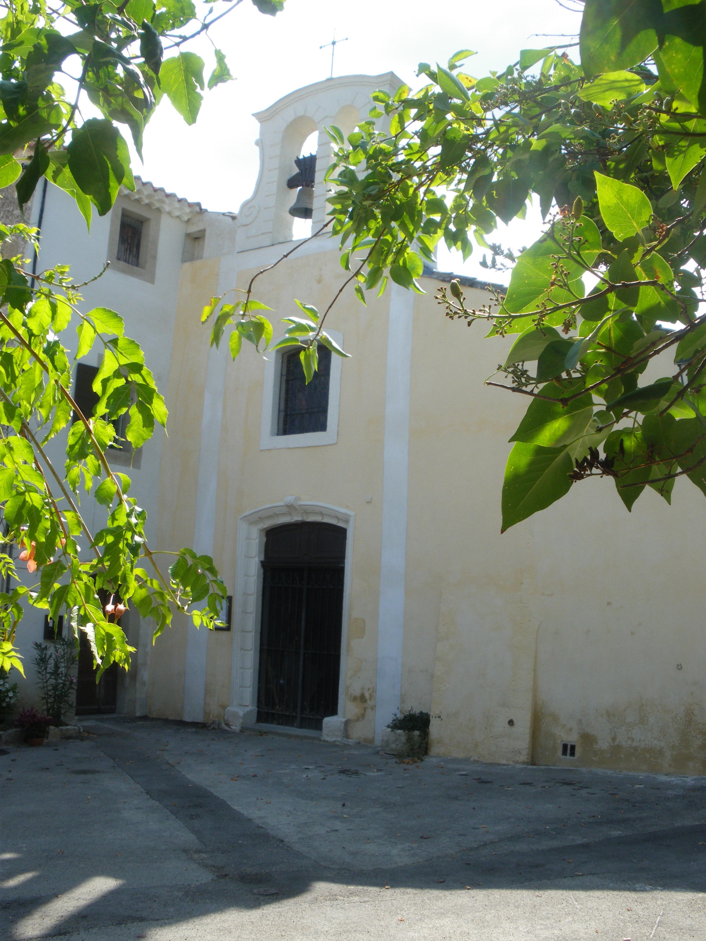 Chapel at Auribeau, Vaucluse, France